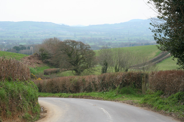 Bettiscombe: by Horse Mill Cross Looking south. Near Birdsmoorgate